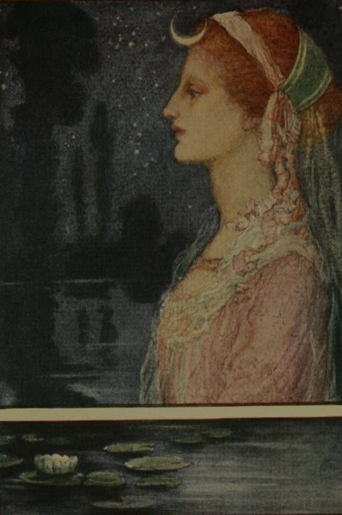 Illustration of poem by John Keats